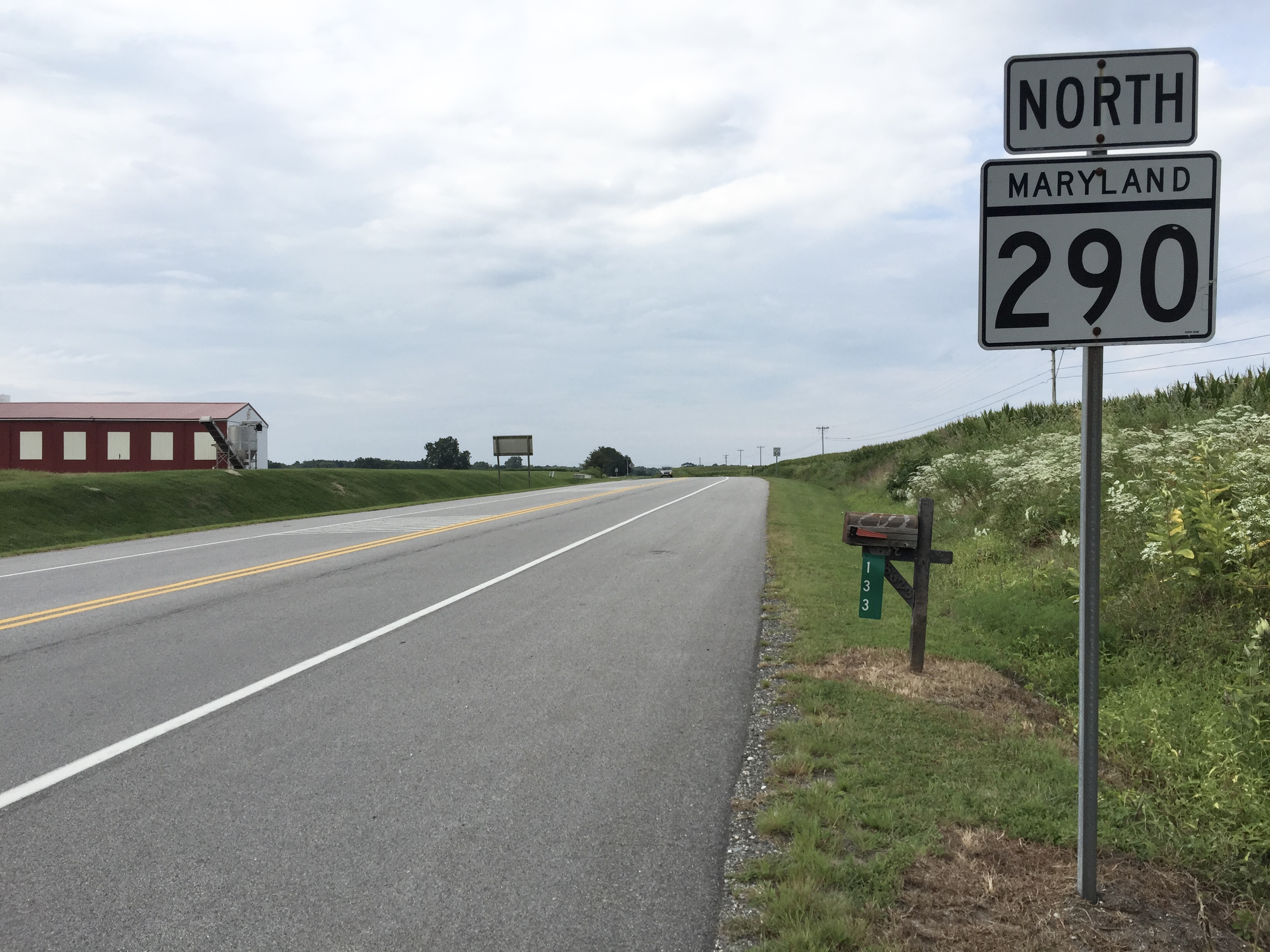 View north along Maryland State Route 290 (Dudley Corner Road) at Maryland State Route 300 (Sudlersville Road) in Dudley Corners, Queen Anne's County, Maryland